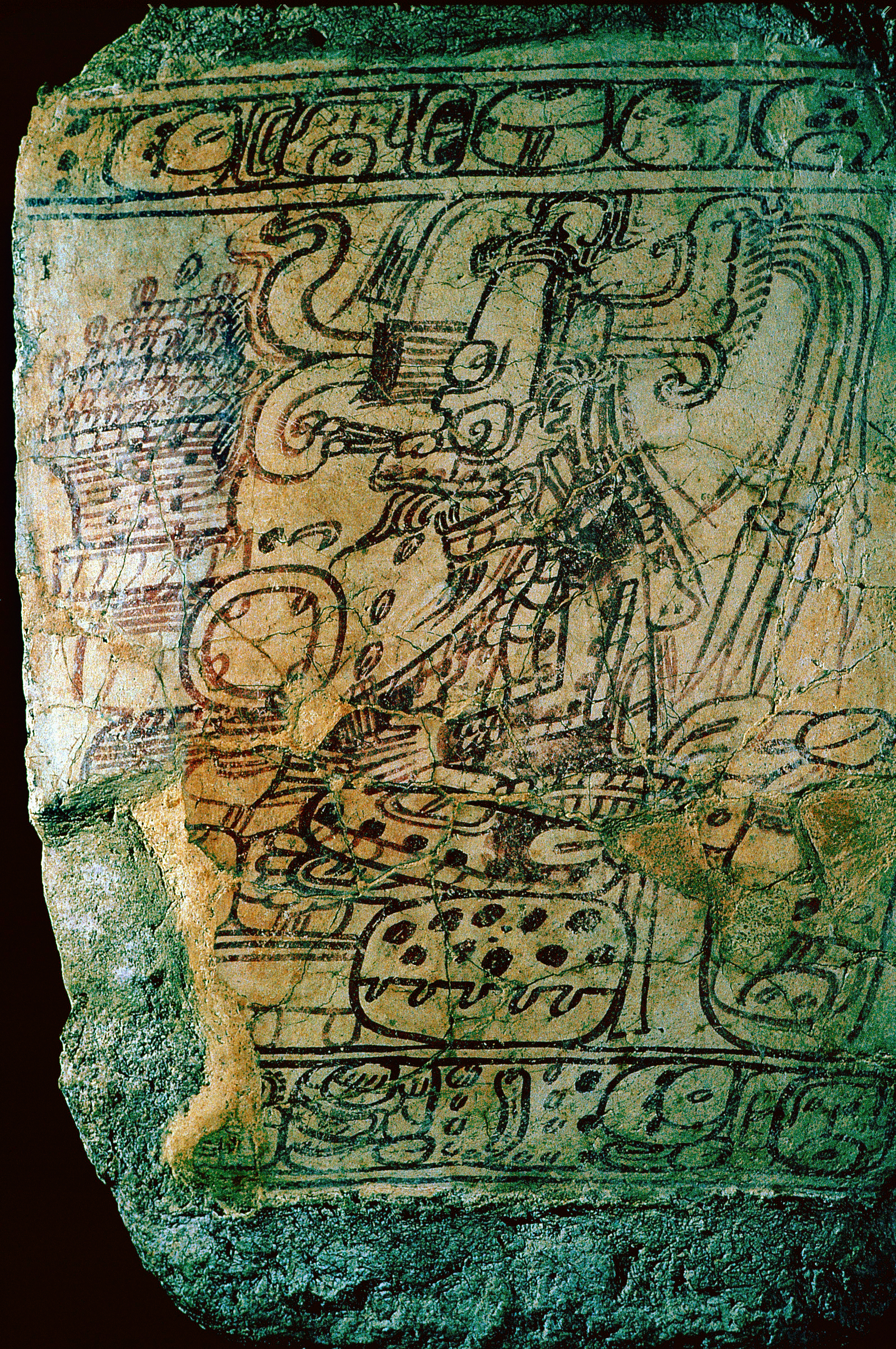 Dsibilnocac, Iturbido, Campeche, Mexico: capstone